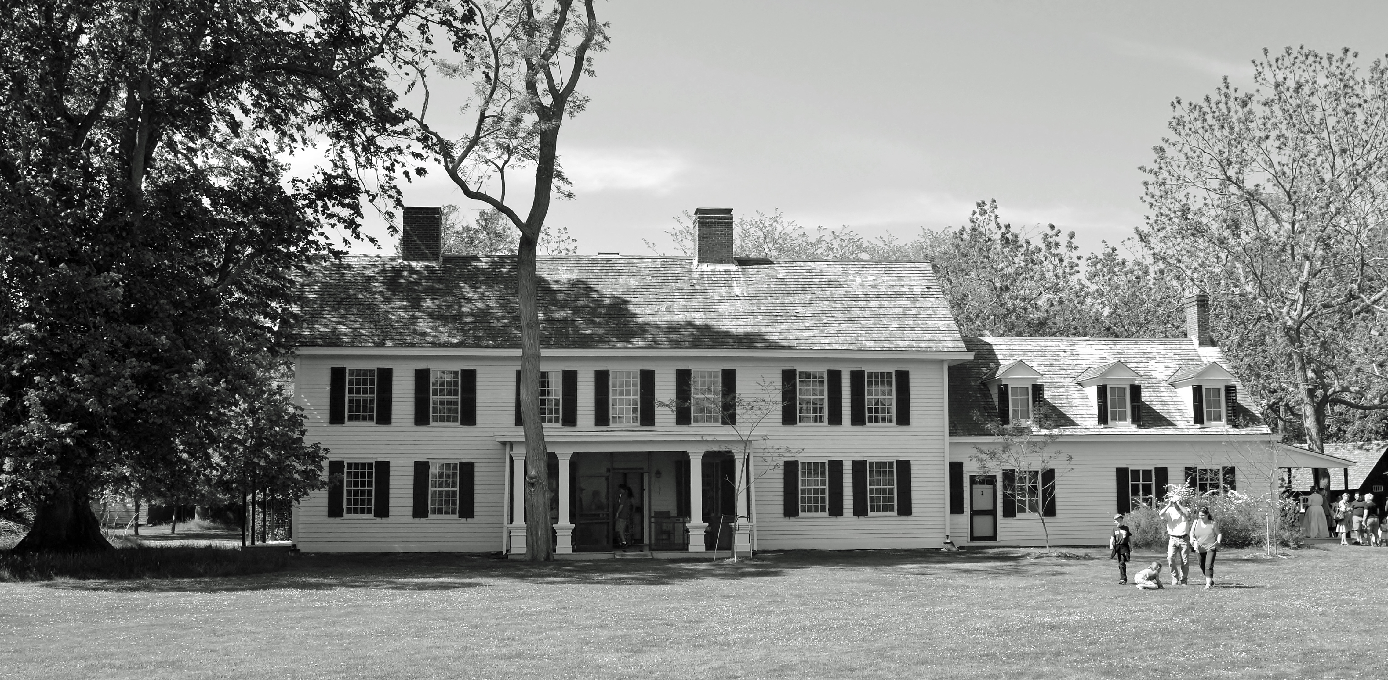 William Floyd House, 20 Washington Avenue Mastic Beach